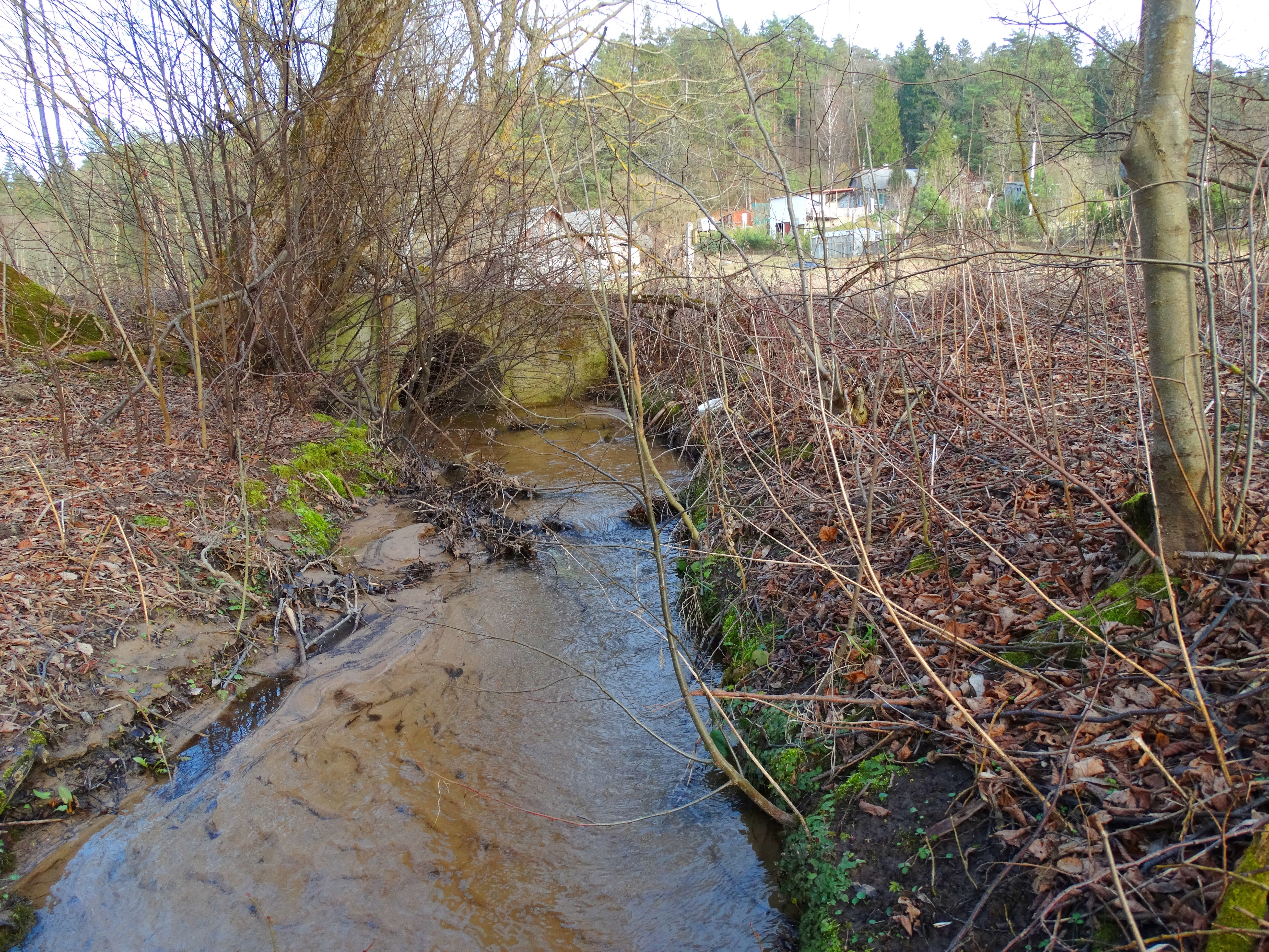 Klevinė River, Neman tributary, Kaunas district. Lithuania